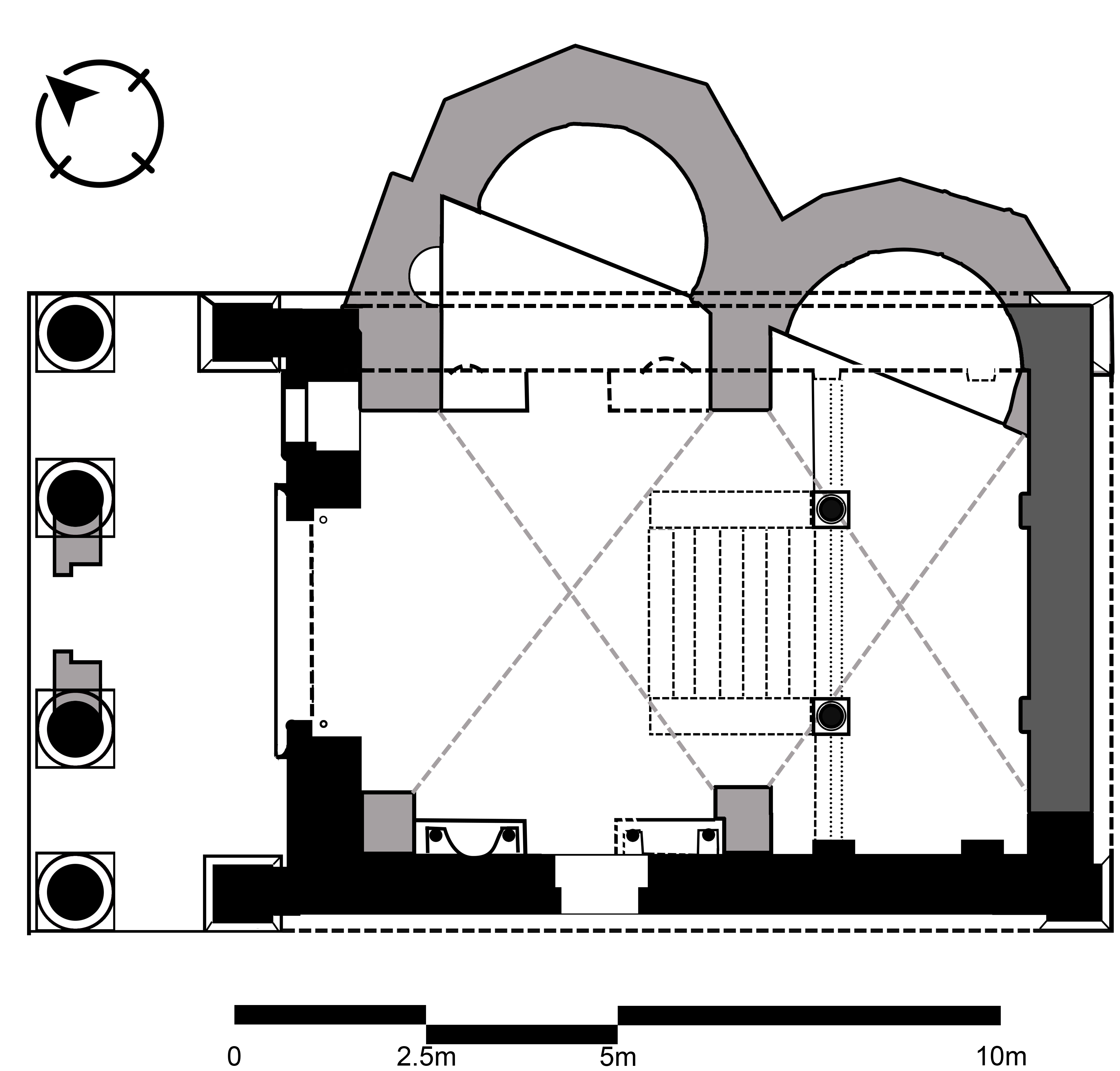 Plan of the Roman Temple of Bziza in North Lebanon. The plan includes later additions when the temple was converted to a church (in gray). The plan was digitized and augmented from a sketch published in 1938 by Krencker and Zchietschmann in Römische Tempel in Syrien, vol. II, pl. 3.